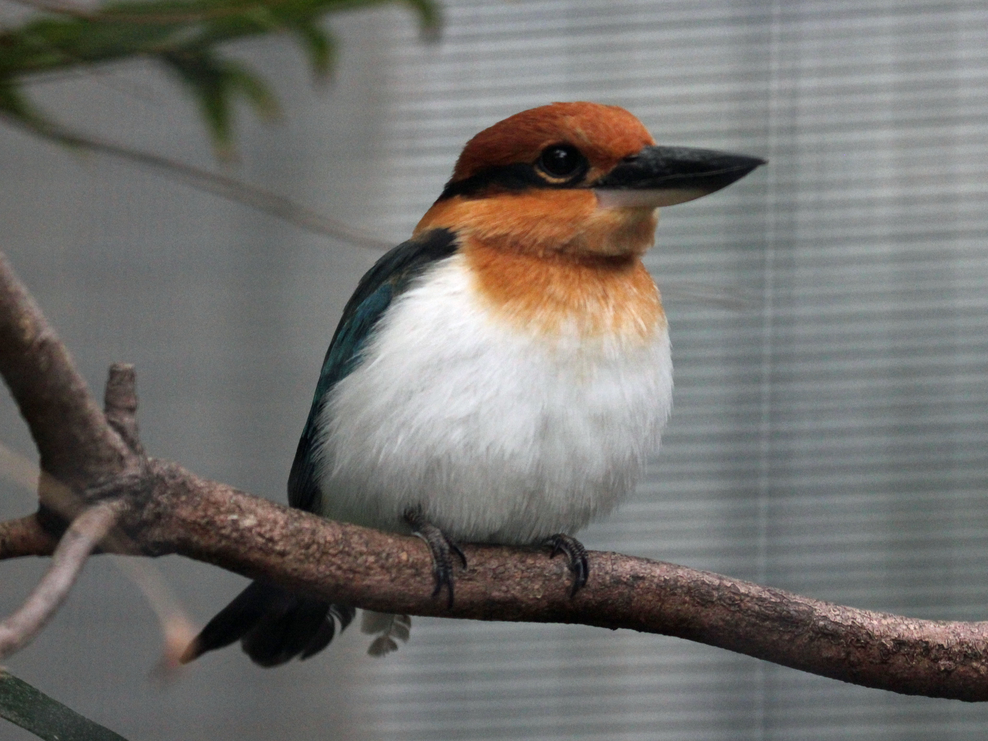 Micronesian Kingfisher (Todiramphus cinnamominus) - San Diego Zoo.